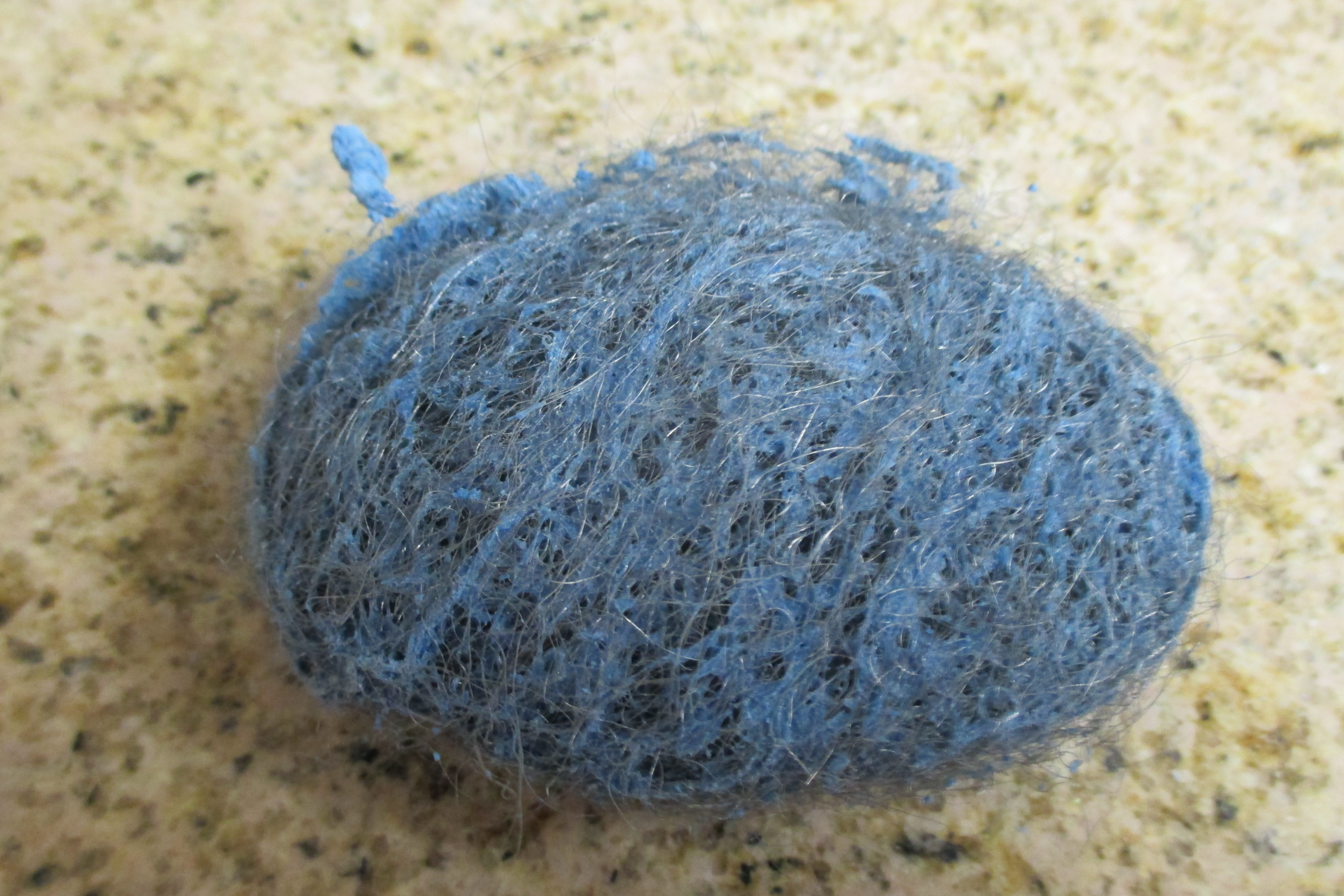 An S.O.S Soap Pad, which is a scouring pad made of steel wool and soap. (The latter is the blue substance seen in the pad.)